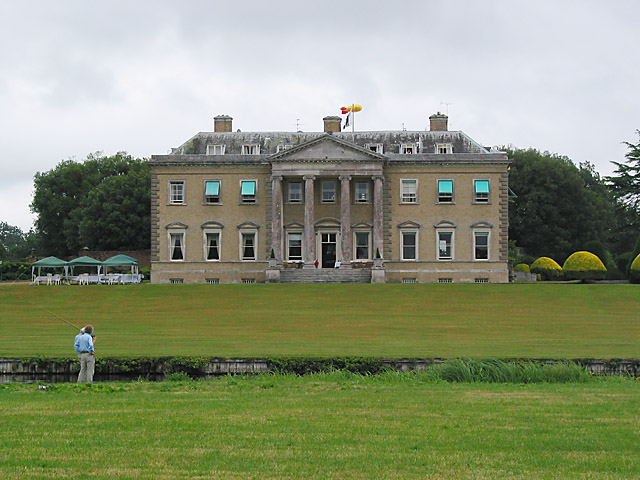 Broadlands House, Romsey. Looking across River Test. Taken at the 2006 Game Fair which explains the balloon.